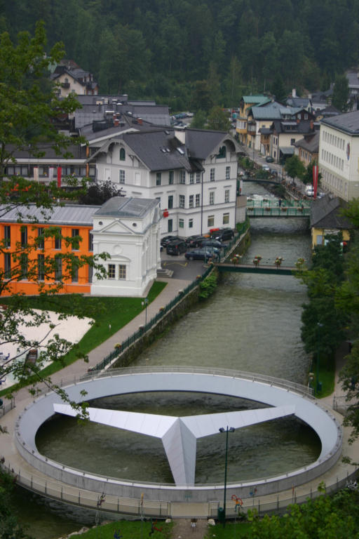 Bad Aussee, Austria